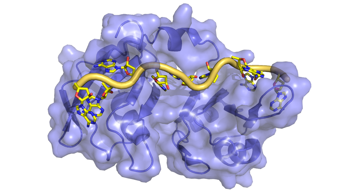 Complex between poly(A)-binding protein and poly(A) tail of mRNA. Made with Pymol